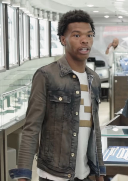 Lil Baby in 2018